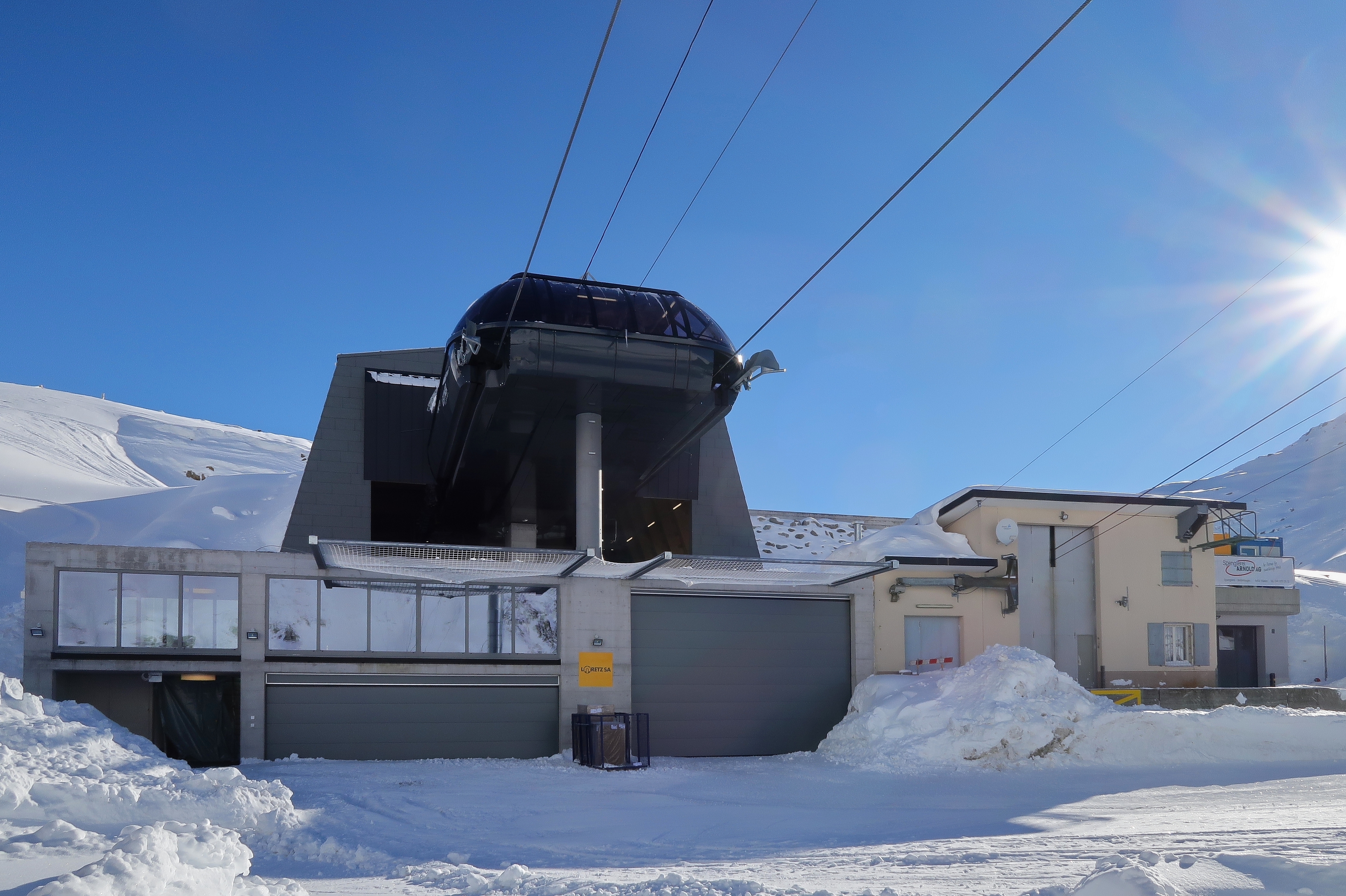 The last ropeway of Sawiris Skiarena between Andermatt and Sedrun goes into operation on the Oberalp Pass. The lower terminus is attached to the building of the military cable car which continues to exist. The military cable car crosses the civil cable car 300 m after the lower terminus and leads about 60 m higher up into the summit rock of the Schneehüenerstock (Unghürstöckli). The ropeway has already been officially opened and technically approved, but commercial startup is on Saturday, December 22, 2018. One week before commissioning the interior construction was not yet completed, because the catering business had priority at the mountain station. Added to this were improvements that were requested during the technical examination. A stressful week for the workers of the manufacturer. Switzerland, Dec 15, 2018. (1/10)